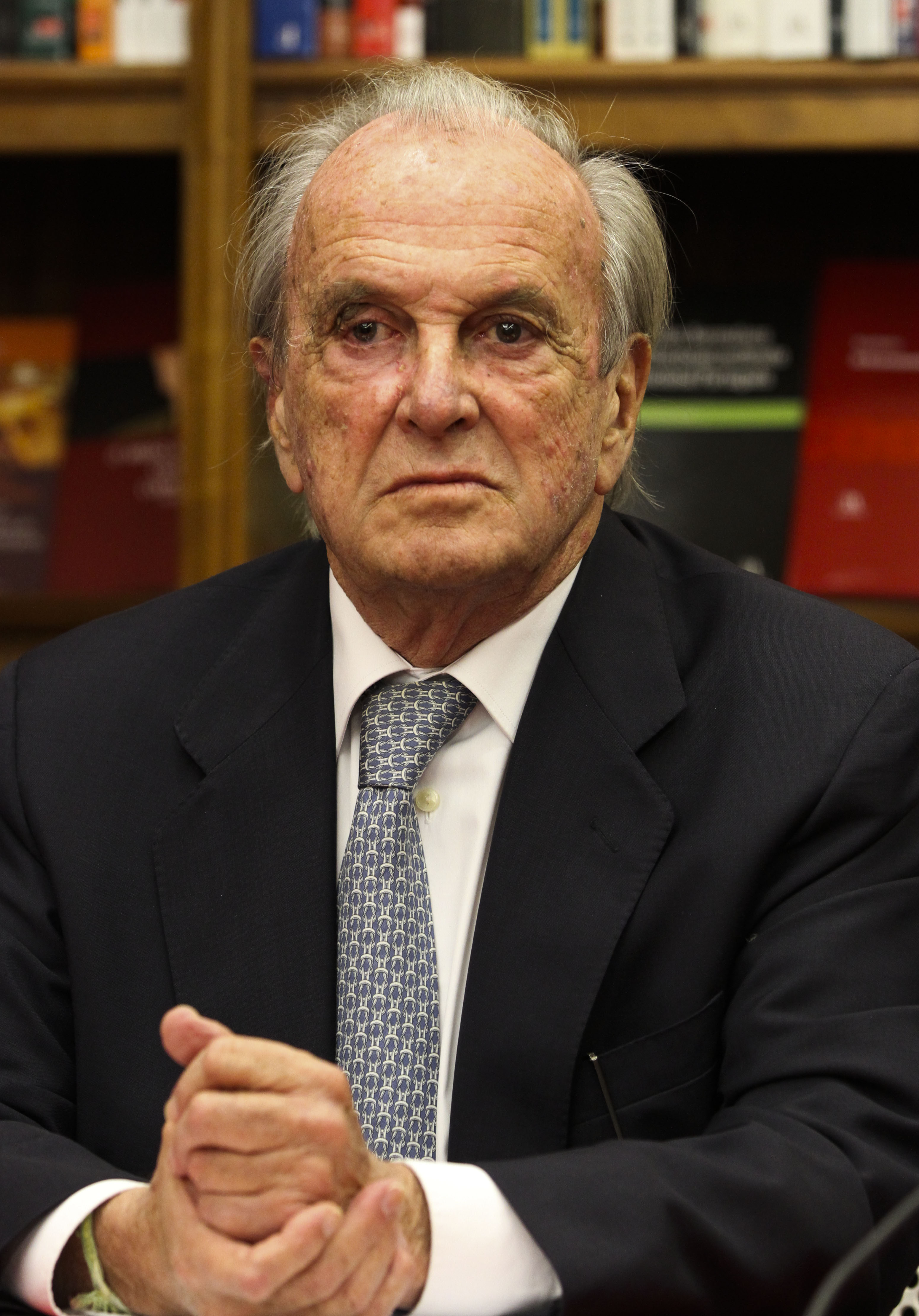 Francisco Pinto Balsemão, businessman, journalist, retired politician and former Prime Minister of Portugal